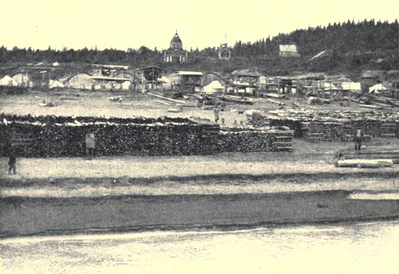 View of Nulato, Alaska from the river, circa 1908, showing wood yard and church.